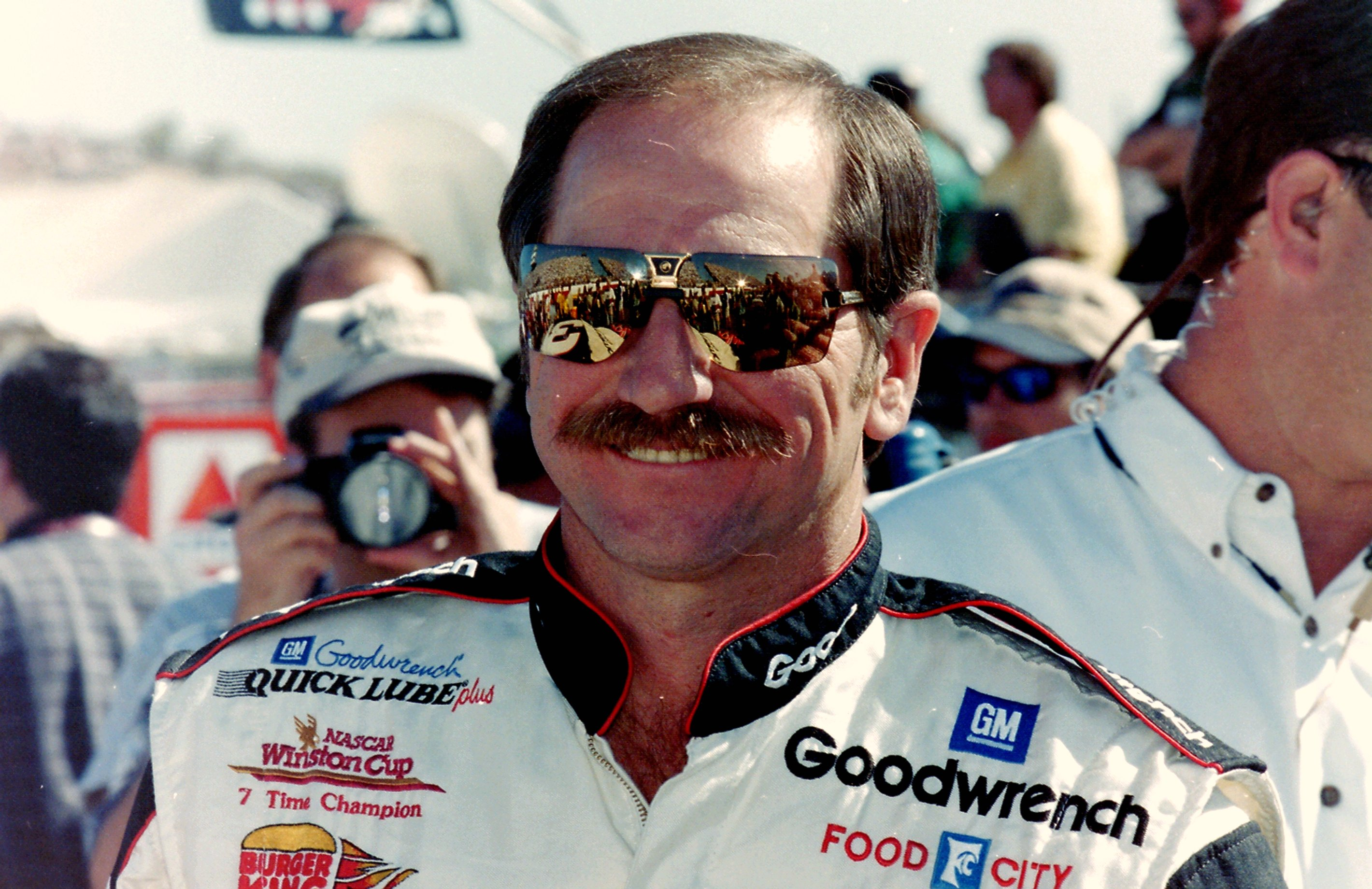 NASCAR champion Dale Earnhardt, taken by official NASCAR photographer Darryl Moran